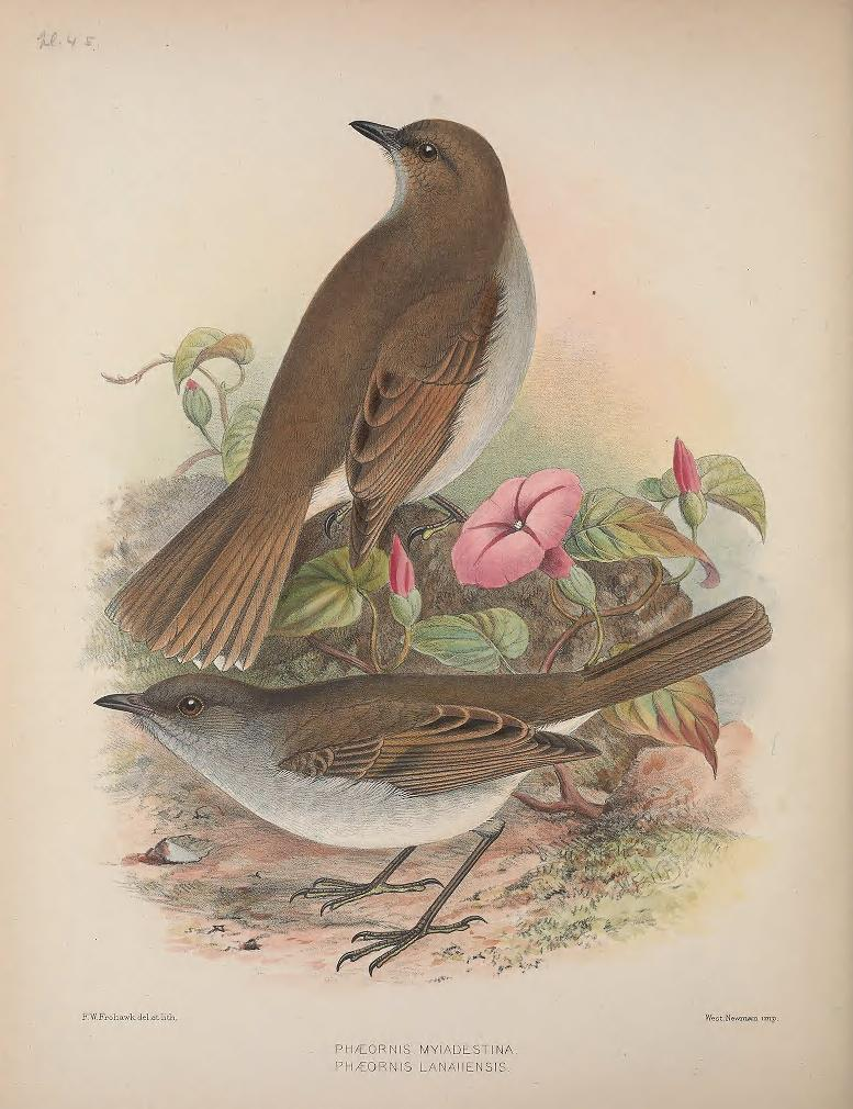 Myadestes myadestinus from The Birds of the Sandwich Islands, up; Myadestes lanaiensis, down